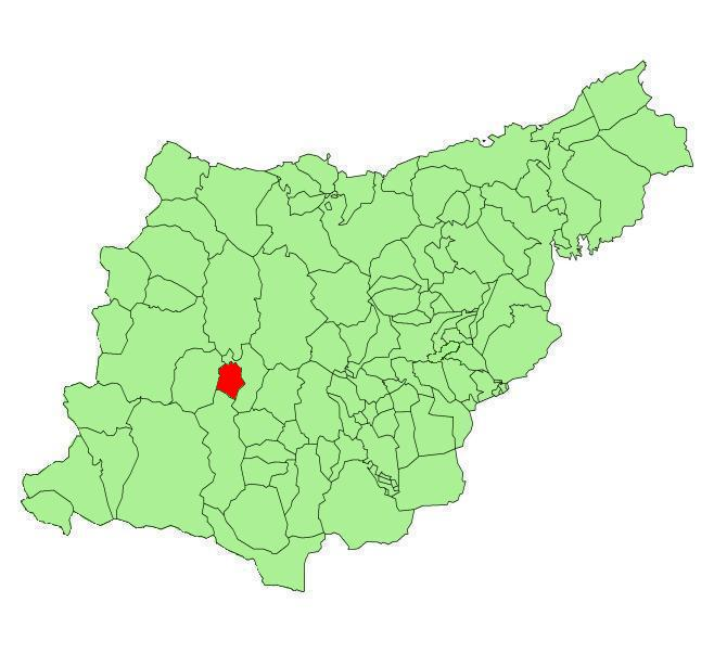 Urretxu municipality in the province of Guipuzcoa